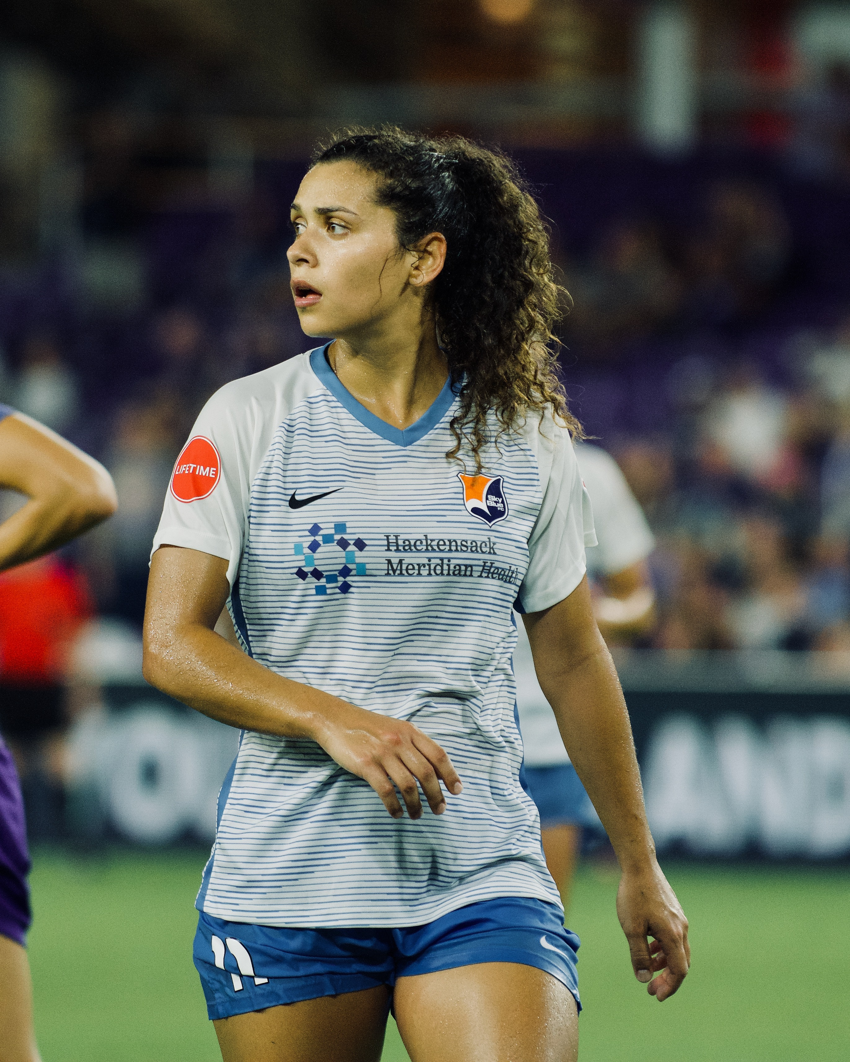 Orlando vs Sky Blue Match